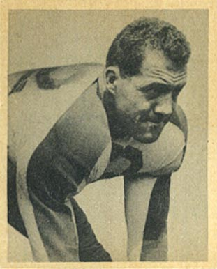 American football player Vic Lindskog on a 1948 Bowman card.